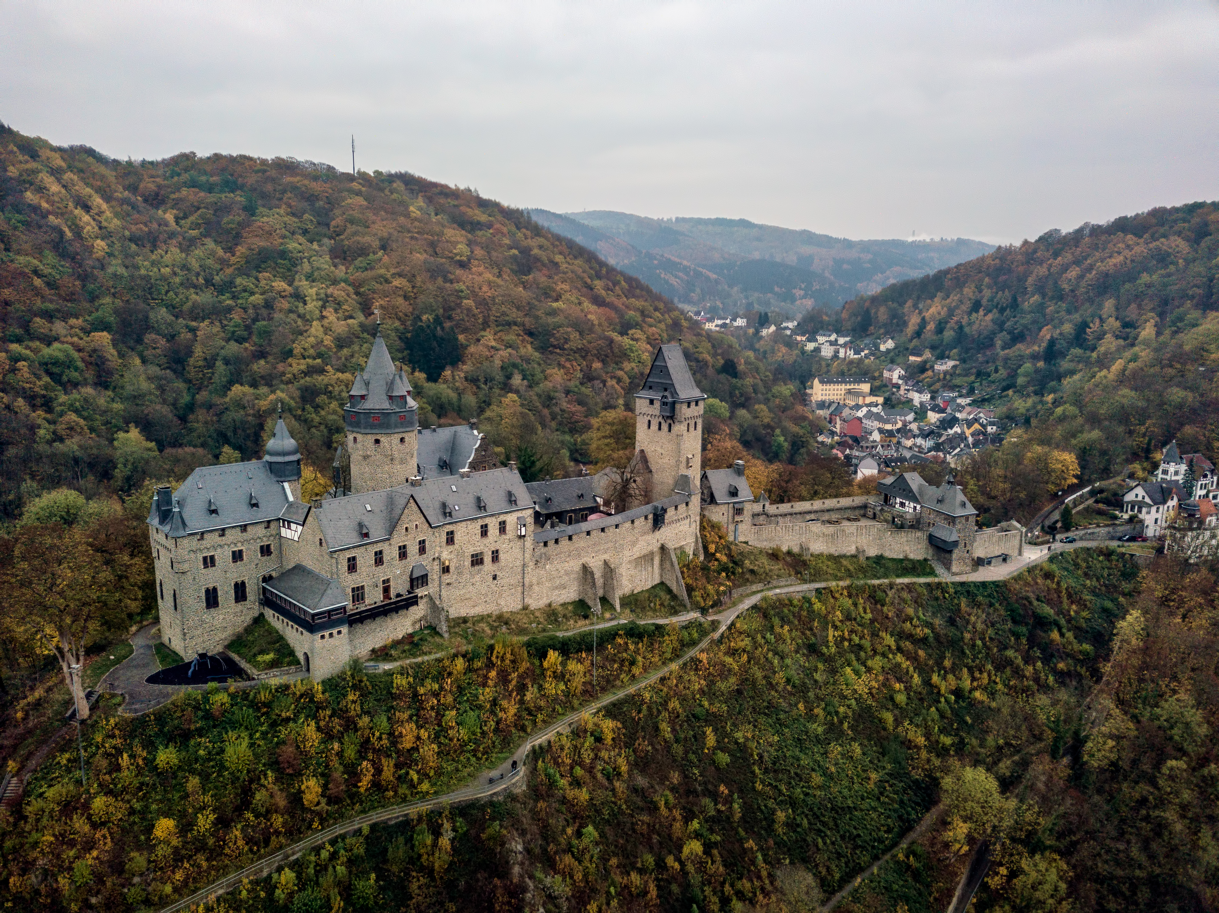 This is a photograph of an architectural monument., no. 5